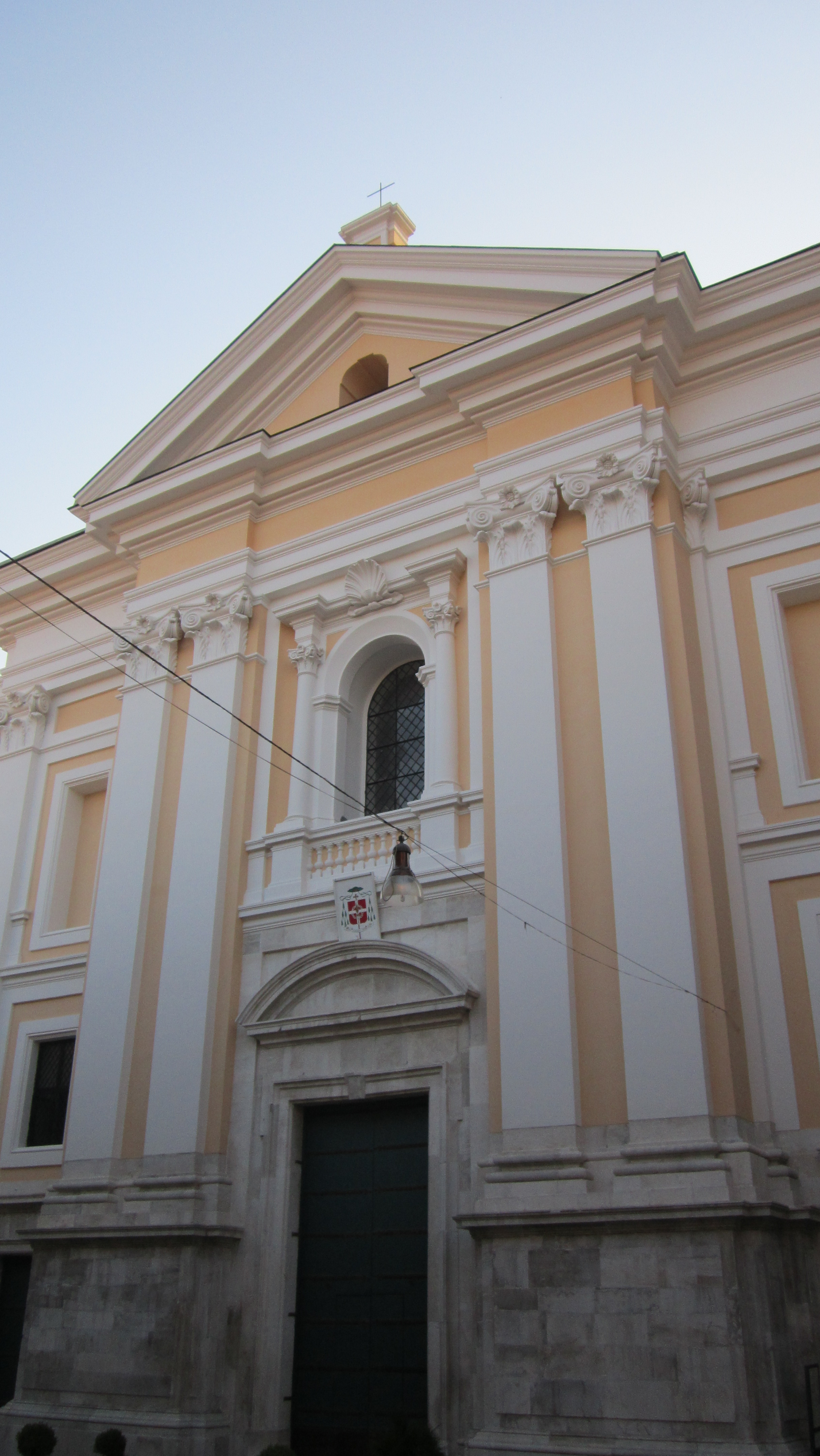 Facade of the Cathedral of St. Paul Aversa